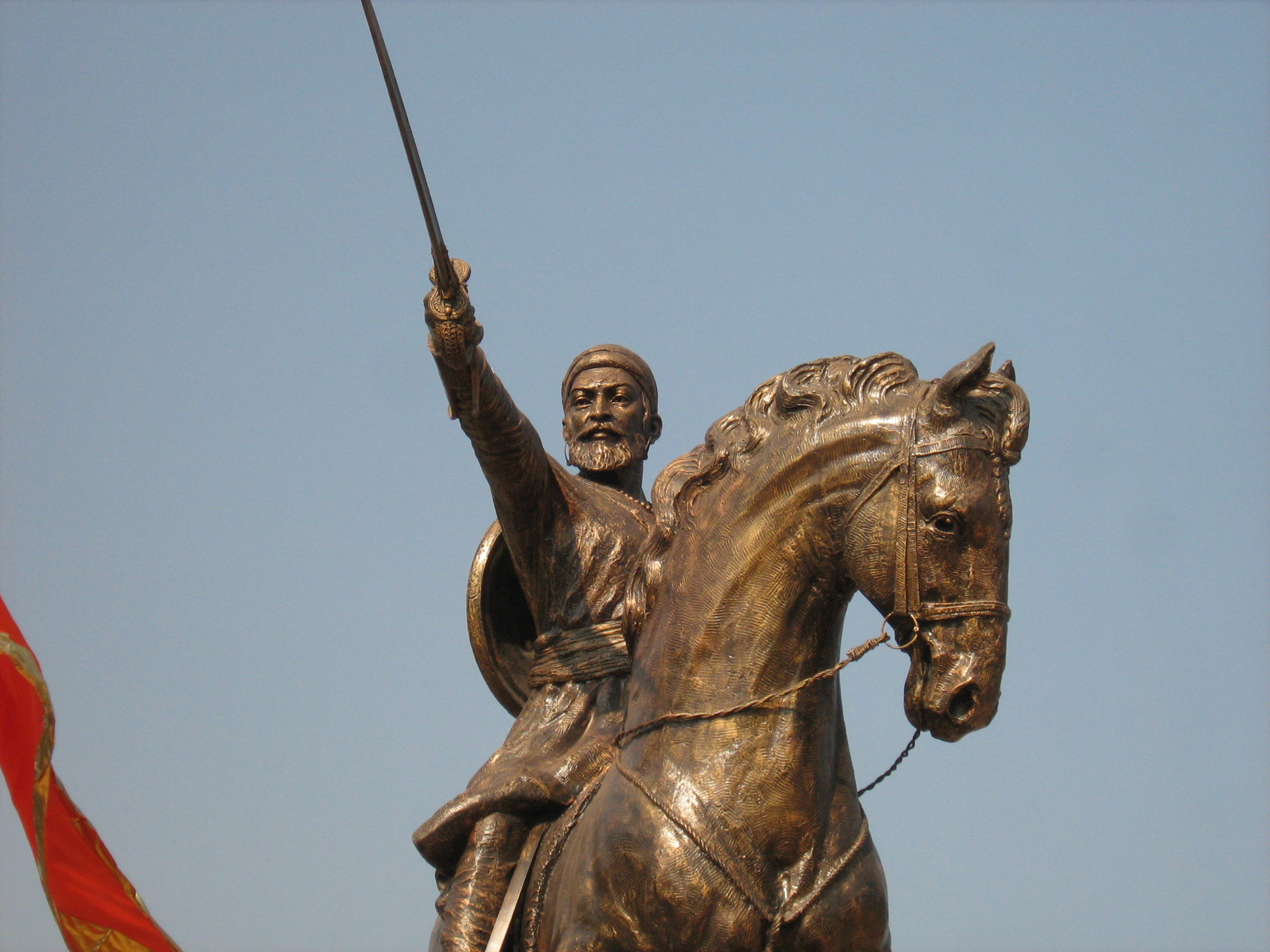 Statue of Chhatrapati Shivaji Raje Bhosale